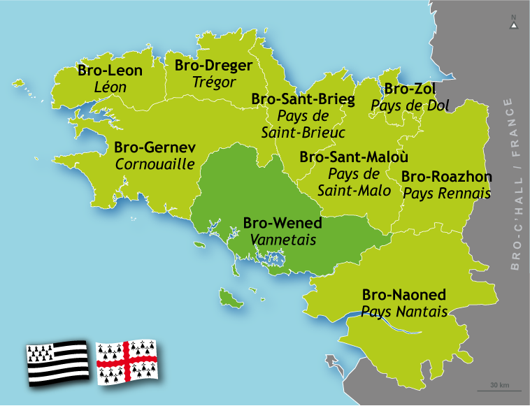 Position's map of Vannes Country (Brittany)